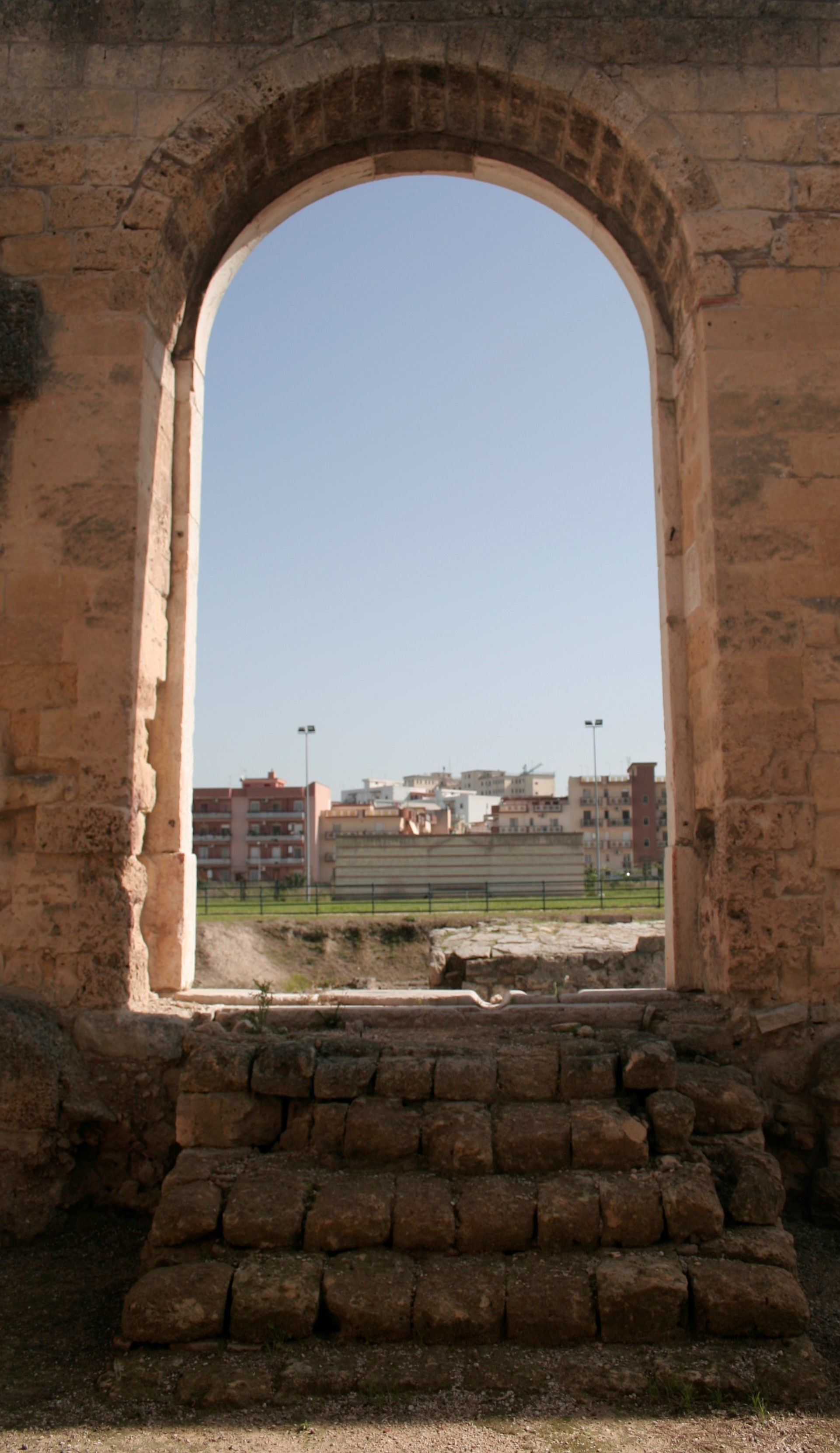 Saint John Baptistery in Canosa di Puglia